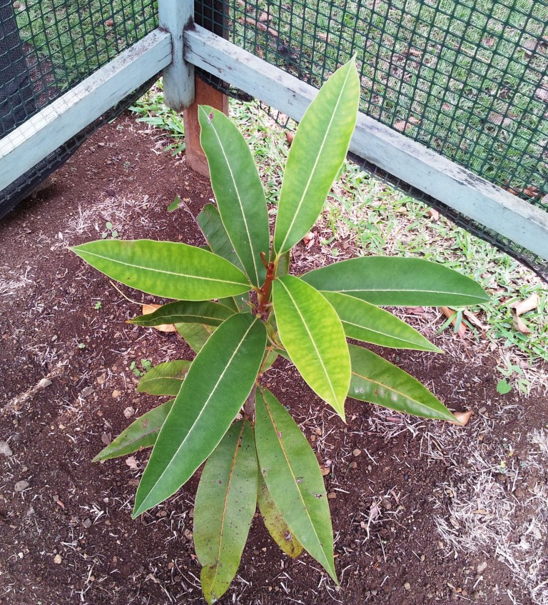 Sideroxylon grandiflorum - Mauritian endemic tree